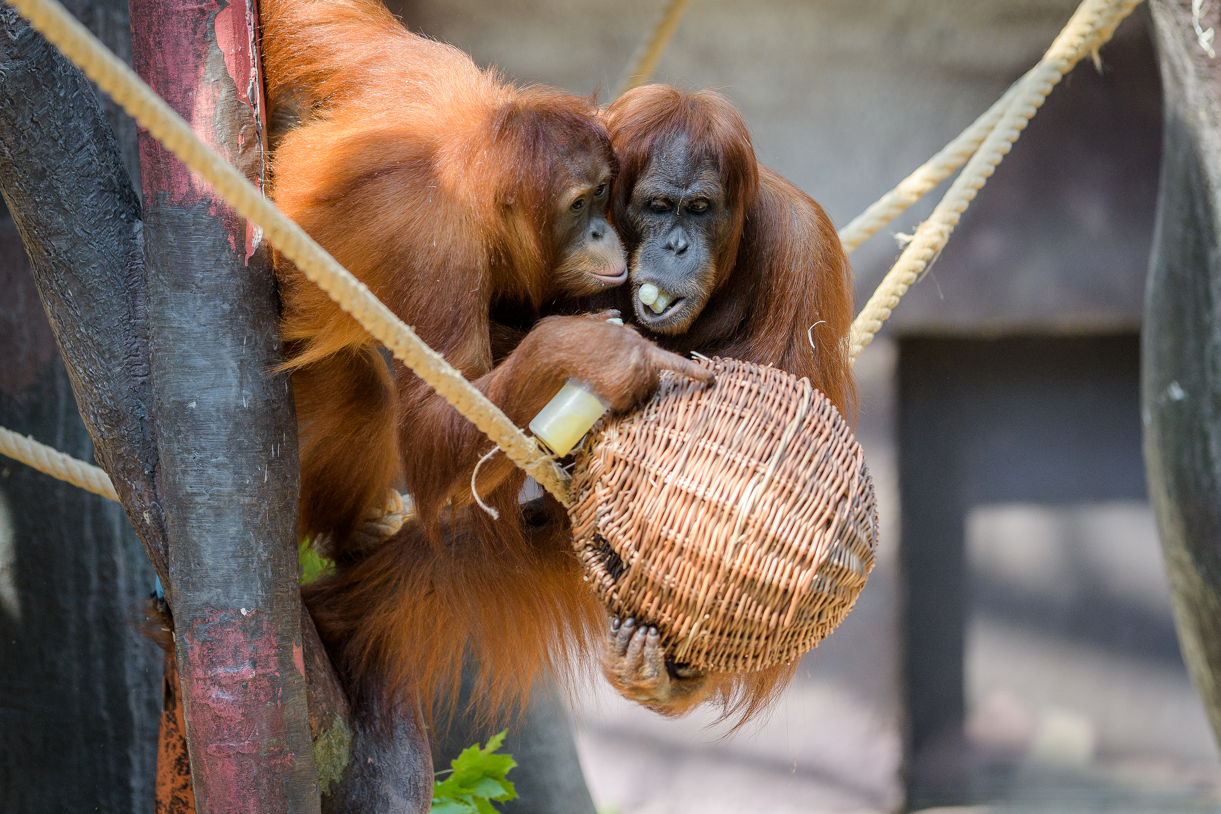 Sumatran orangutan, enrichment, Prague Zoo